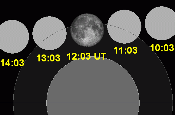 May 2002 lunar eclipse chart of moon's penumbral lunar eclipse path through the earth's shadow. thumb